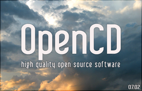 The OpenCD version 07.02 splash-screen.